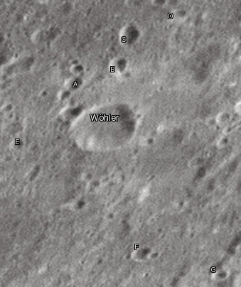 Wohler lunar crater as seen from Earth with satellite craters labeled